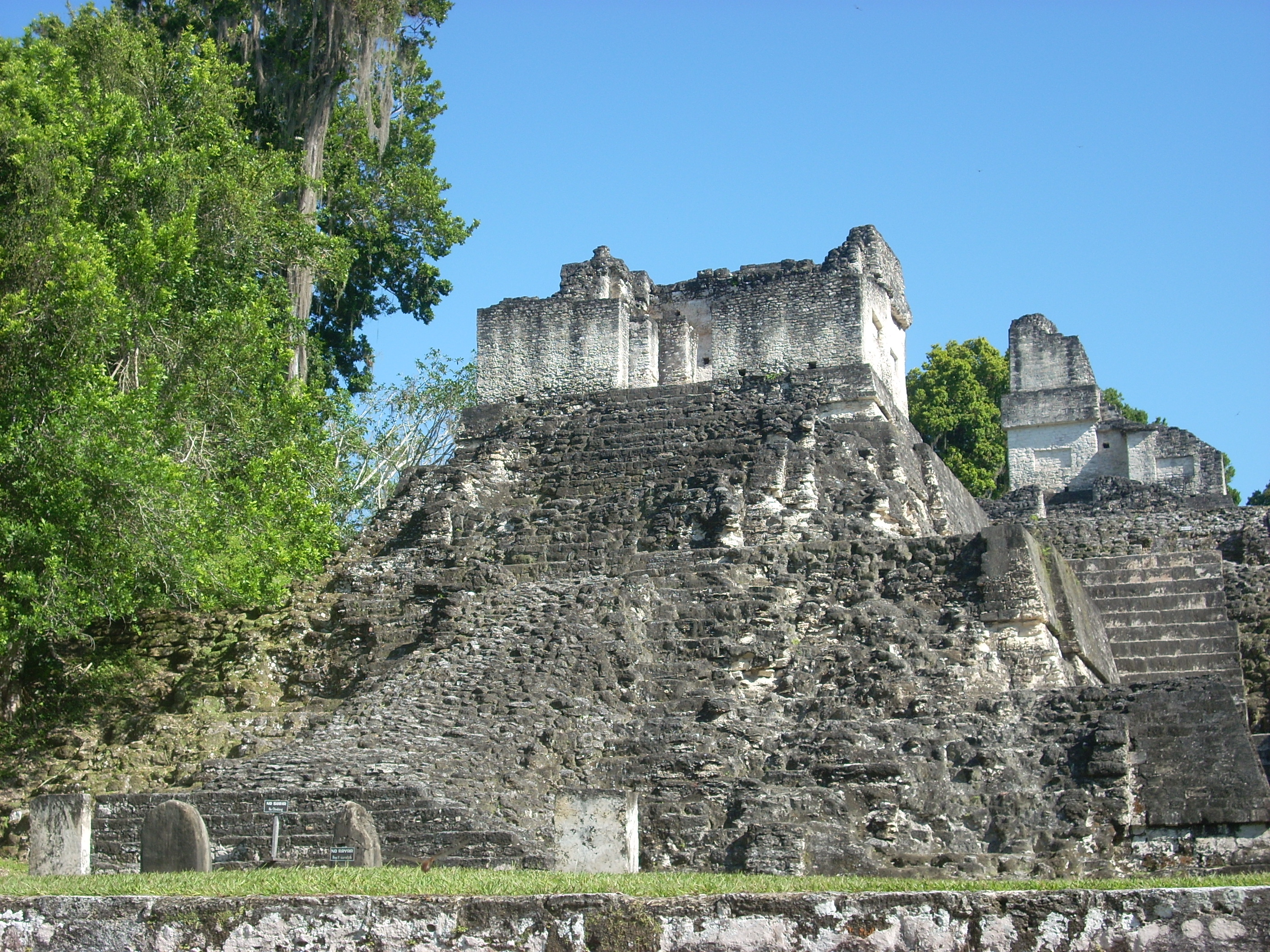 Temple 34 (also known as Structure 5D-34) in the North Acropolis of Tikal, Petén, Guatemala. Behind it, a stairway leads up to the squat Temple 25 (Structure 5D-25), and behind that stands the taller east-facing Temple 23 (Structure 5D-23).